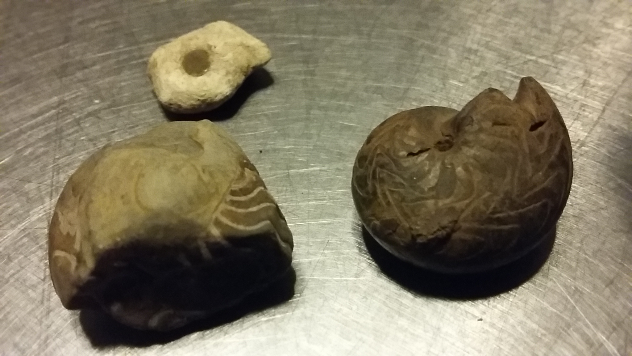 Ancient Goniatite Fossils Found on the Beautiful Shores of Lough Allen.